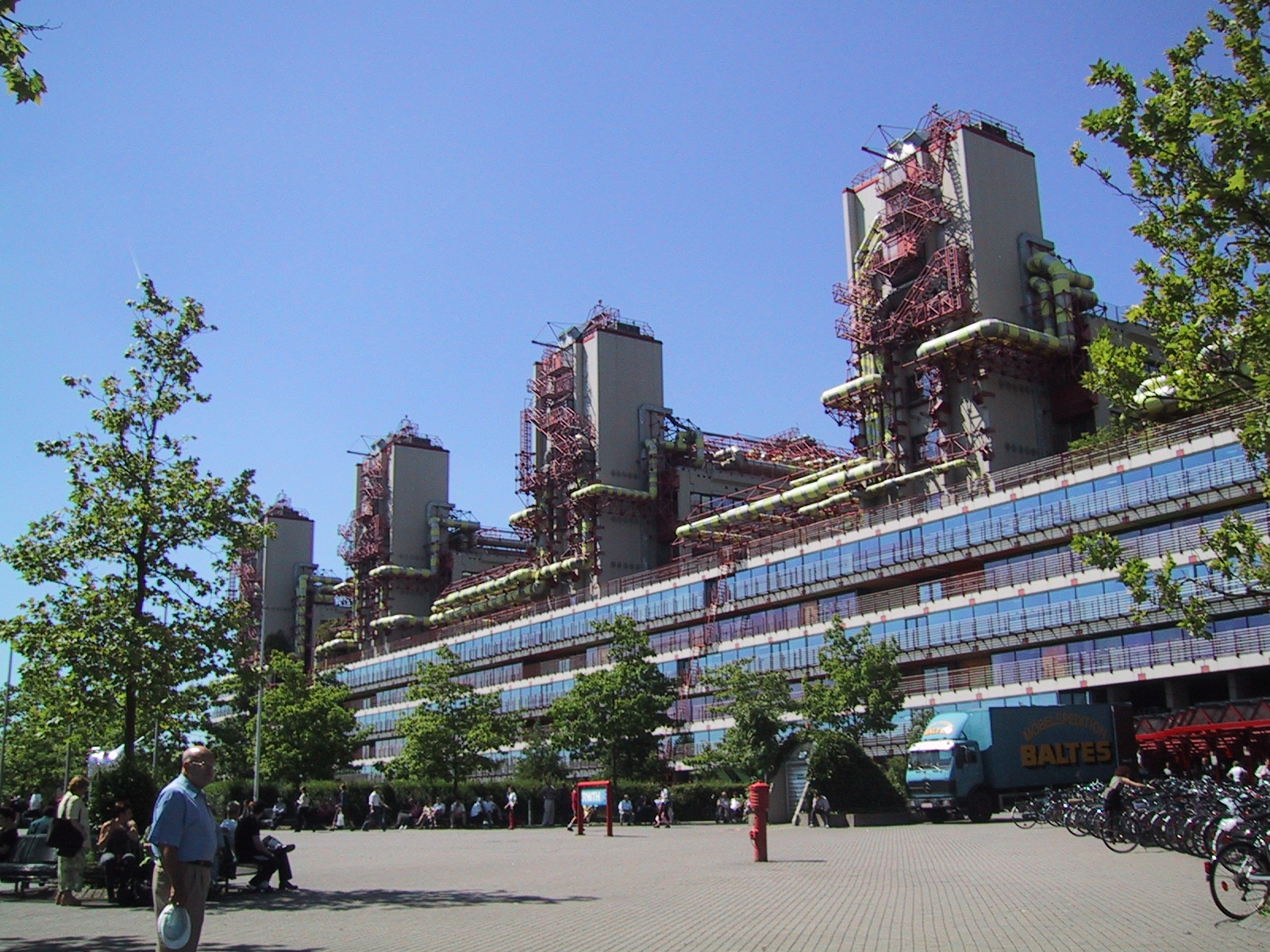 Klinikum of Aachen, section of the storefront